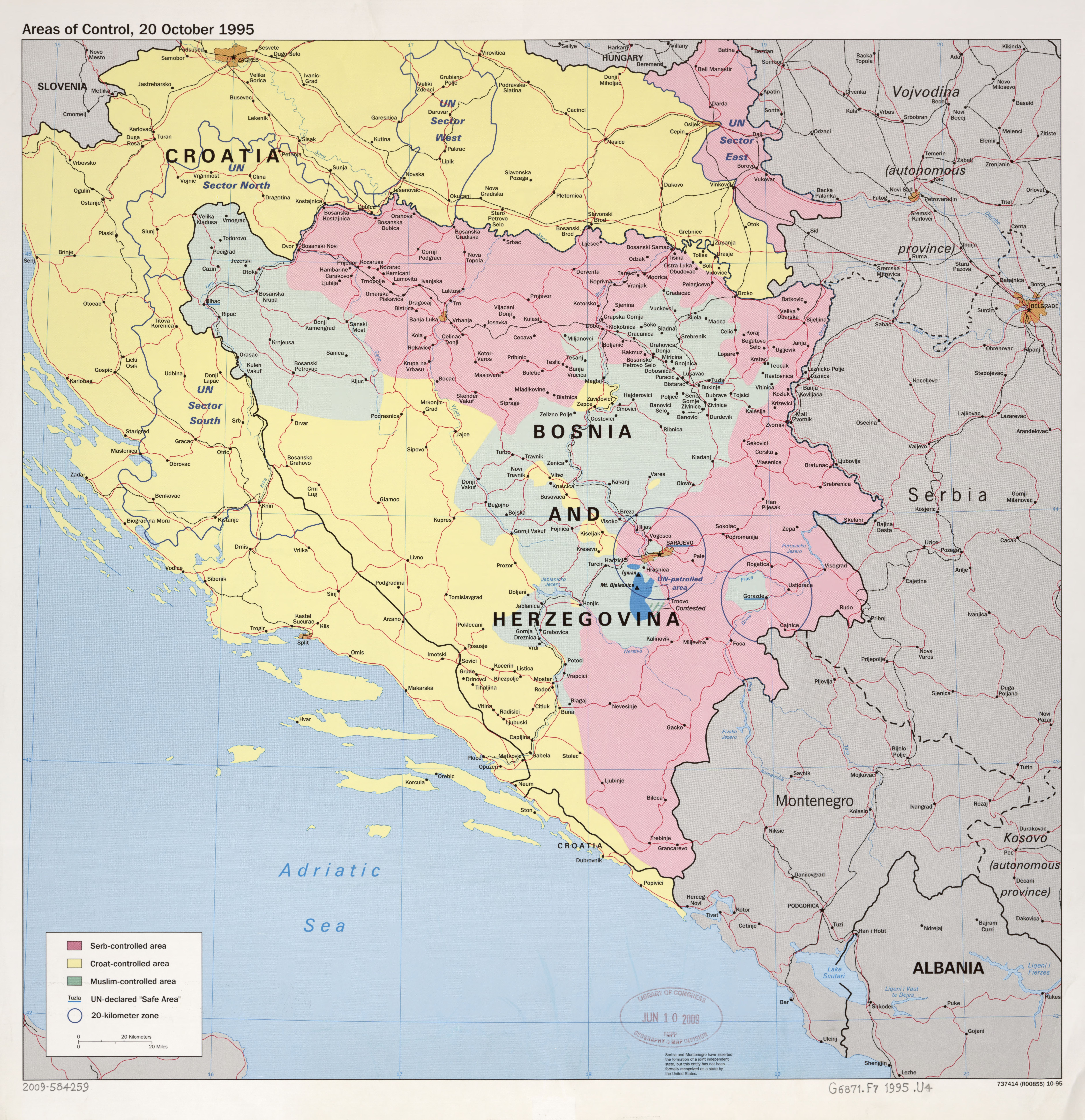 Shows Serbian/Croatian/Muslim areas of control and UN-declared safe/patrolled areas. Also shows control areas in Croatia including UN sectors. "737414 (R00855) 10-95." Includes note. Available also through the Library of Congress Web site as a raster image.